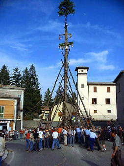 Detail of the event "Antica Tradizione del maggio" which takes place every year on 11 May in Castel Giorgio (TR).